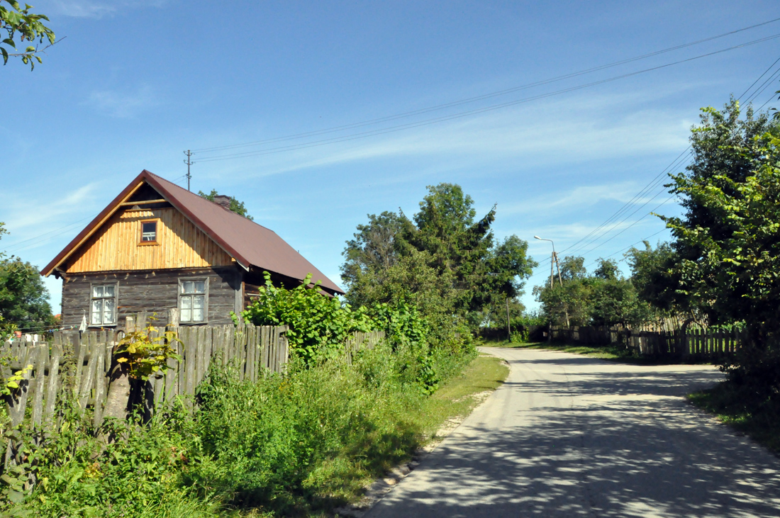 Road in the village